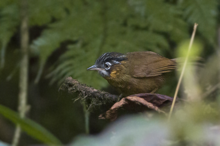 The specie Grey-throated babbler had been photographed at Zuluk, East Sikkim, Sikkim, India on 24.05.2015.